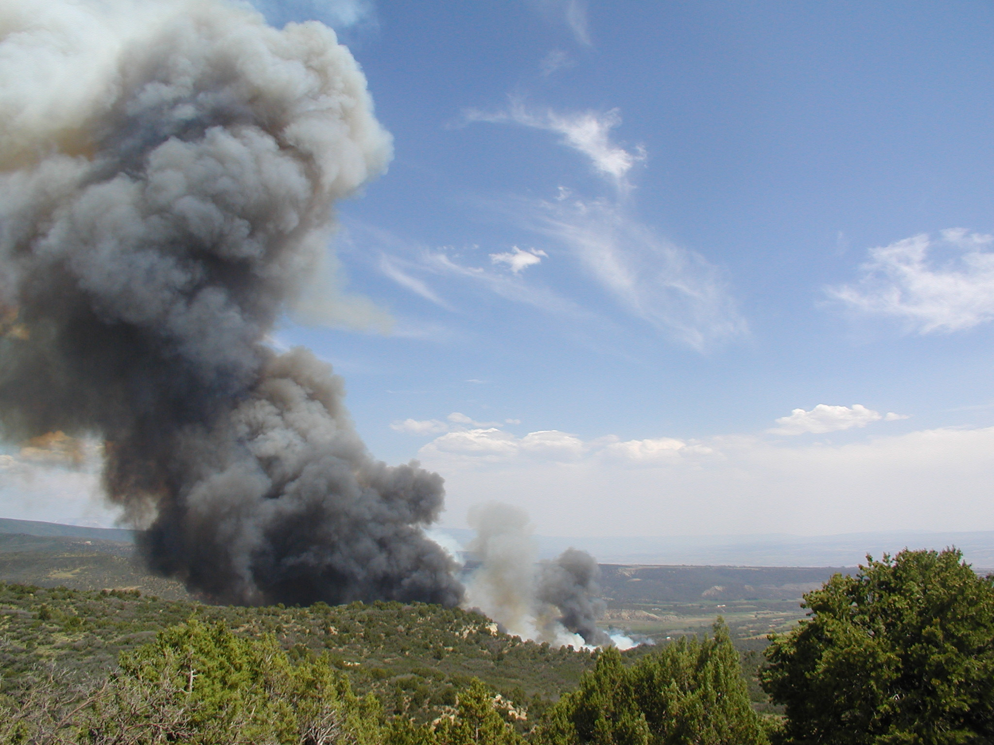 McGruder Fire, Cedaredge, Colorado, look southeast and down-valley. Fire below the Rollins Sandstone, 7-3-04.